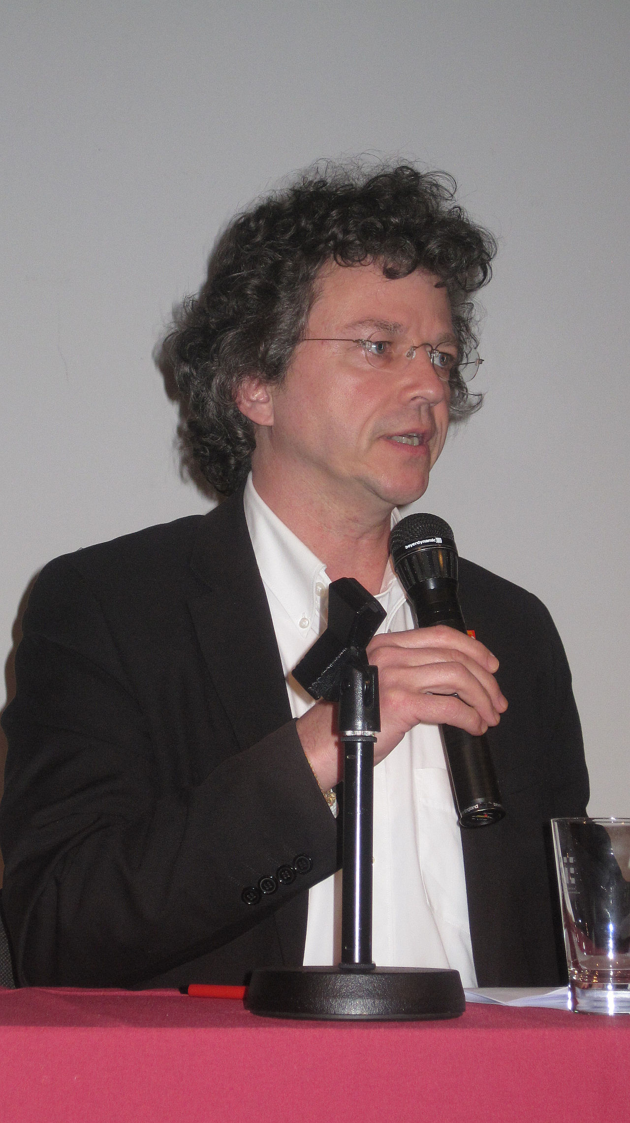 Dr. Franz Kahle, Mayor of Marburg, Hesse, Germany